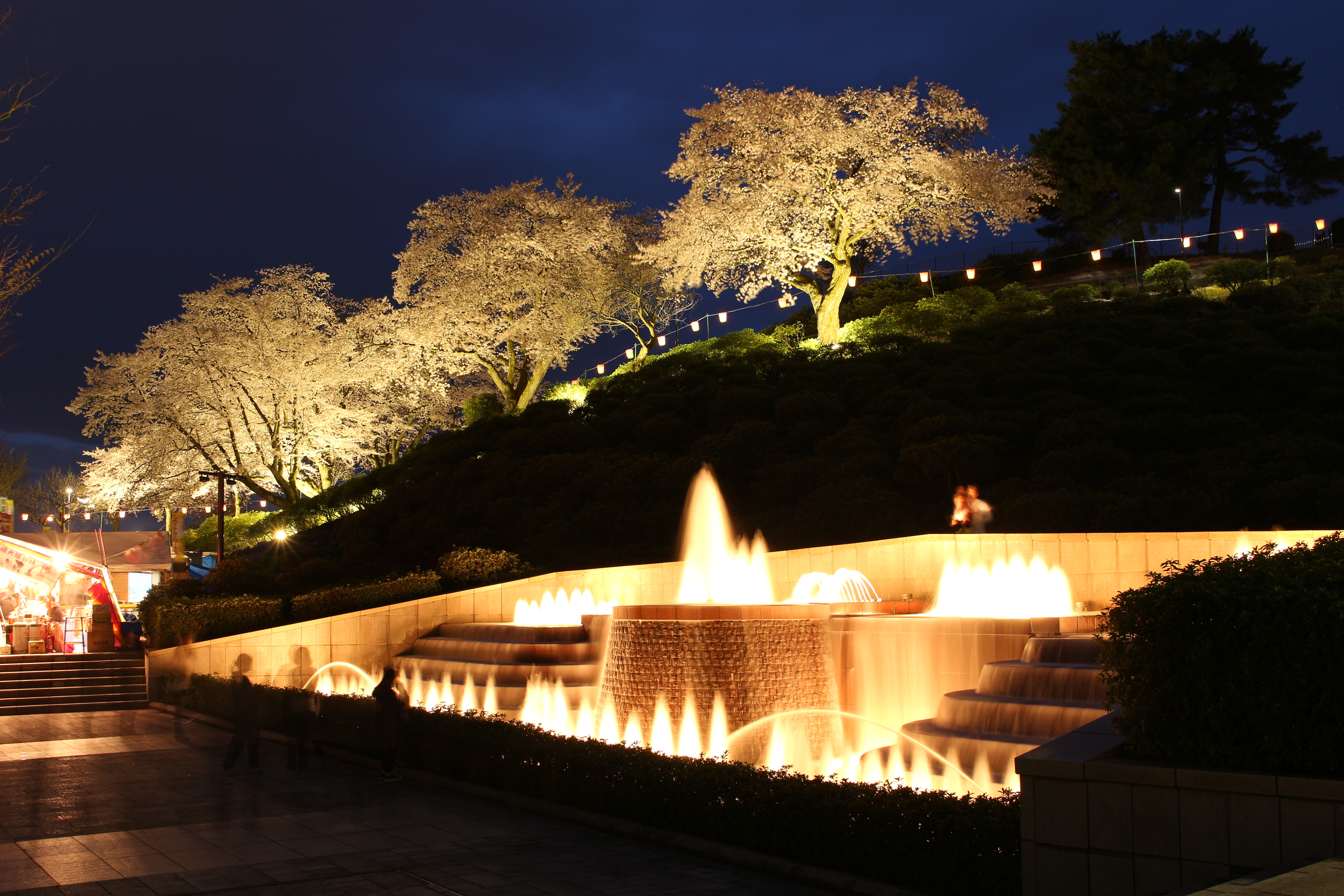 Fountain of Nishiyama Park